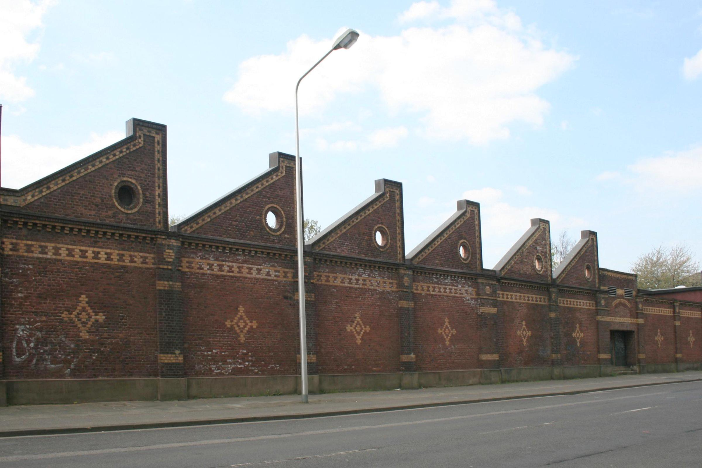 Cultural heritage monument No. 1/066d in Düren